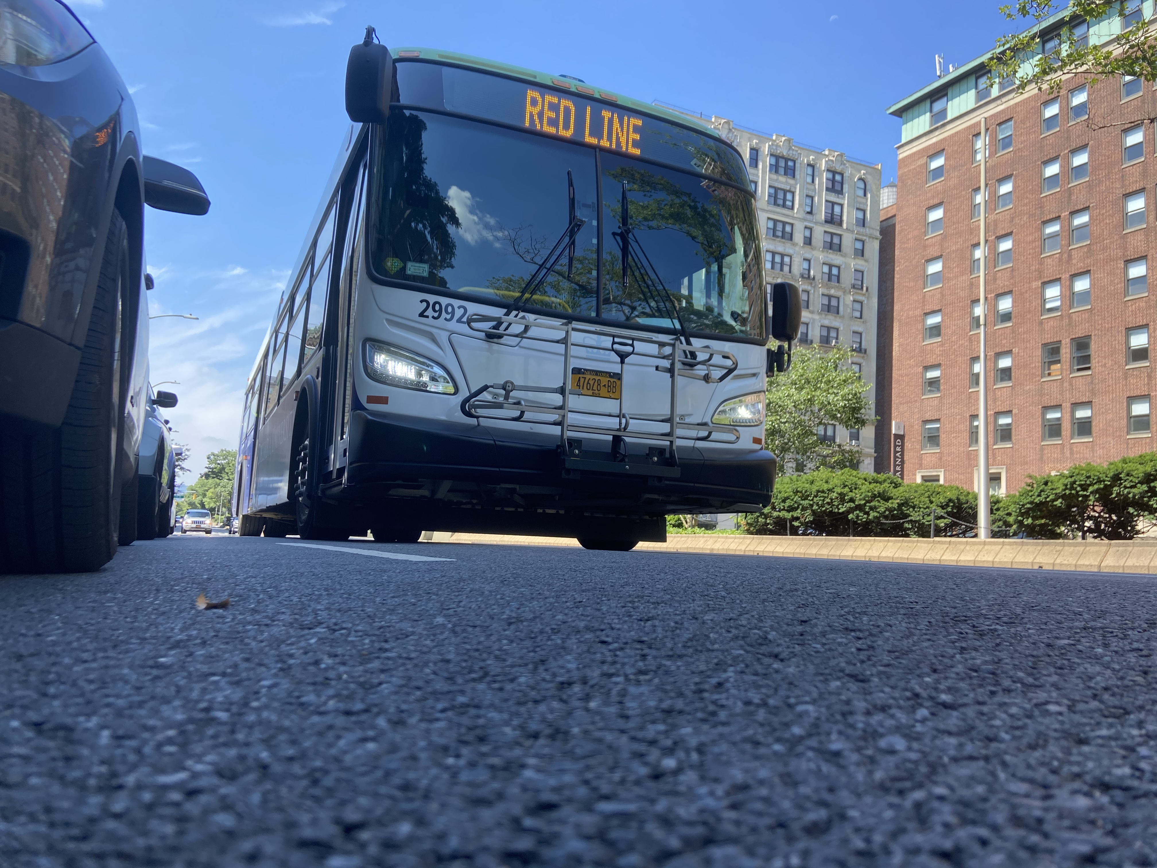 2018 New Flyer XE40 Xcelsior CHARGE No. 2992 on the Red Line.